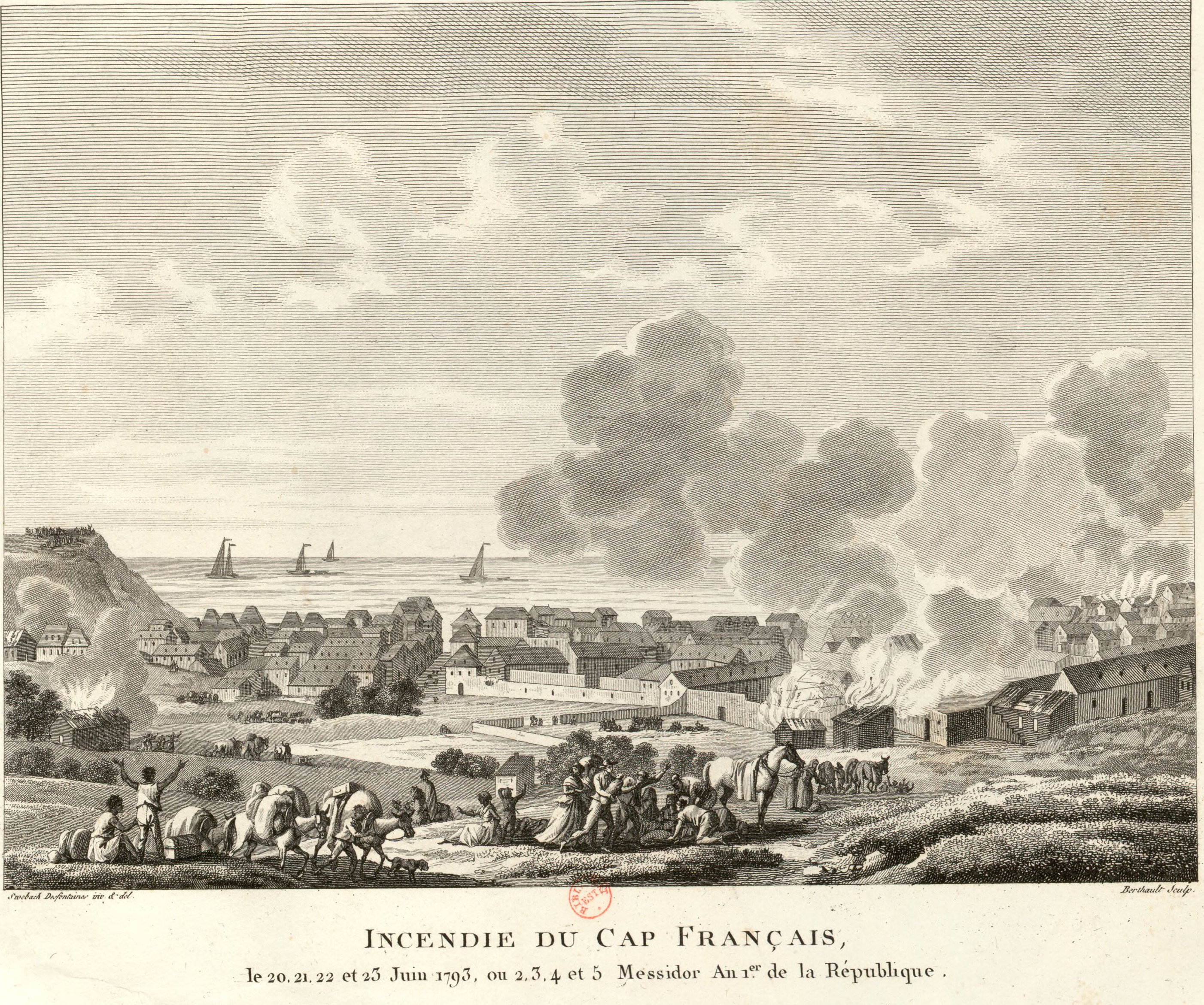 in June 1793 the new Governor of Saint-Domingue, François-Thomas Galbaud du Fort, began an insurrection against the French Republic's civil commissioners. During the disturbances parts of the town of Cap-Français were burned.